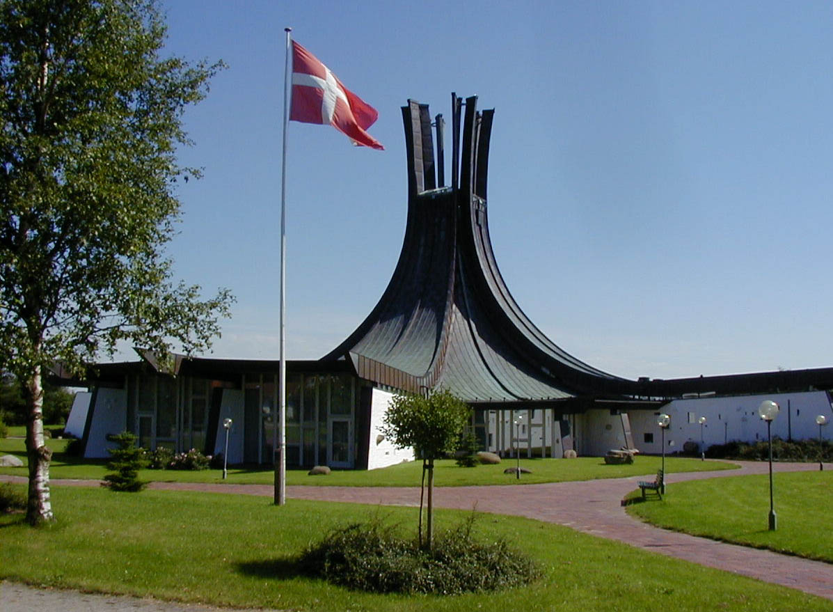 A picture of one of the two churches in Tjorring, Denmark. The Church is called Baunekirken.